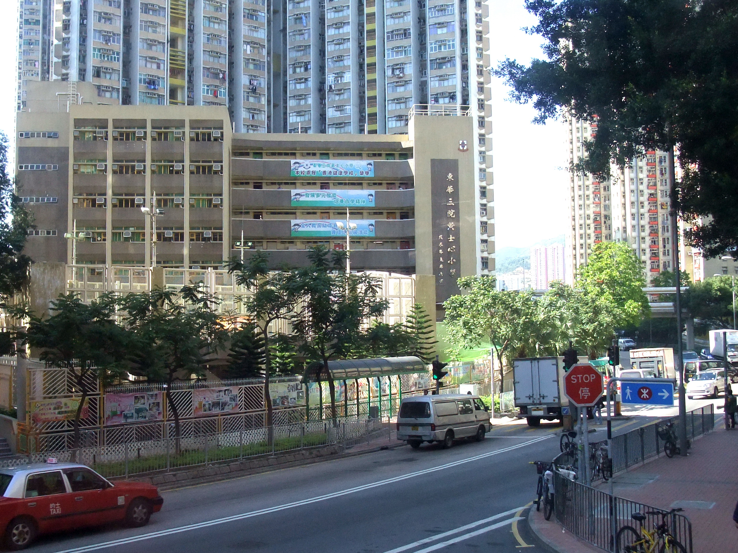 Tung Wah Group of Hospitals Wong See Sum Primary School, Tsing Yi, Hong Kong.